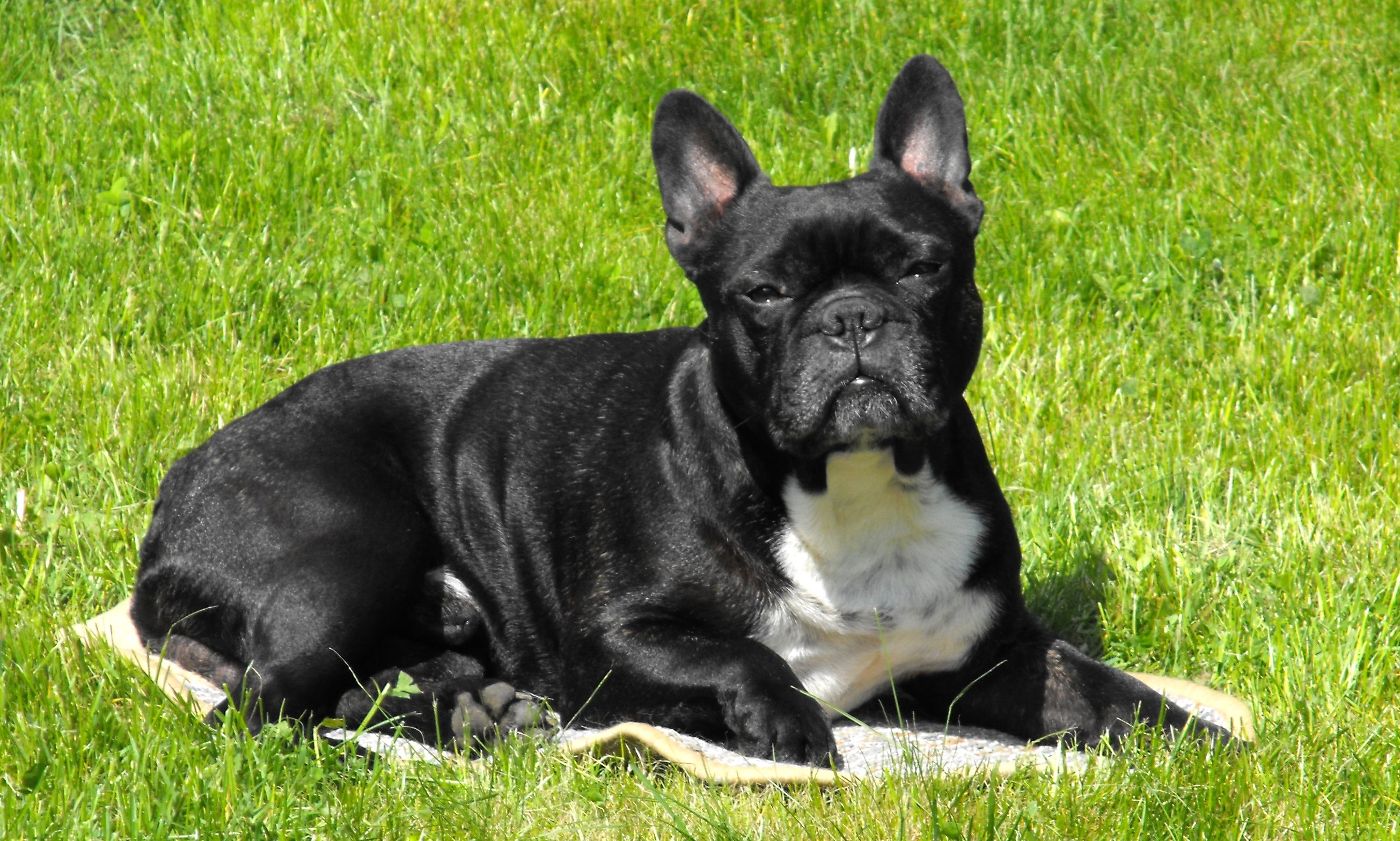 French Bulldog